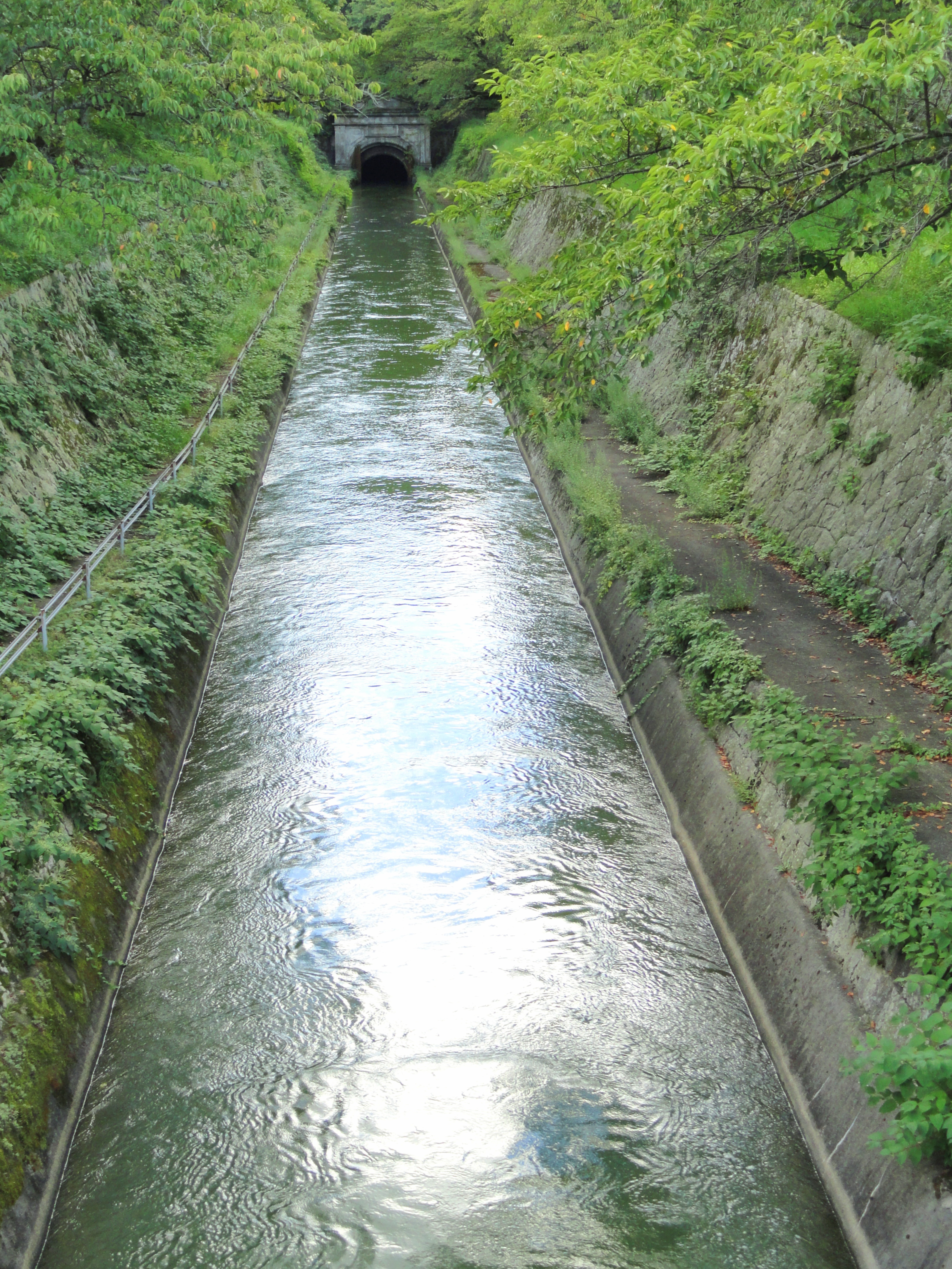 Biwako Canal, Otsu, Shiga, Japan.